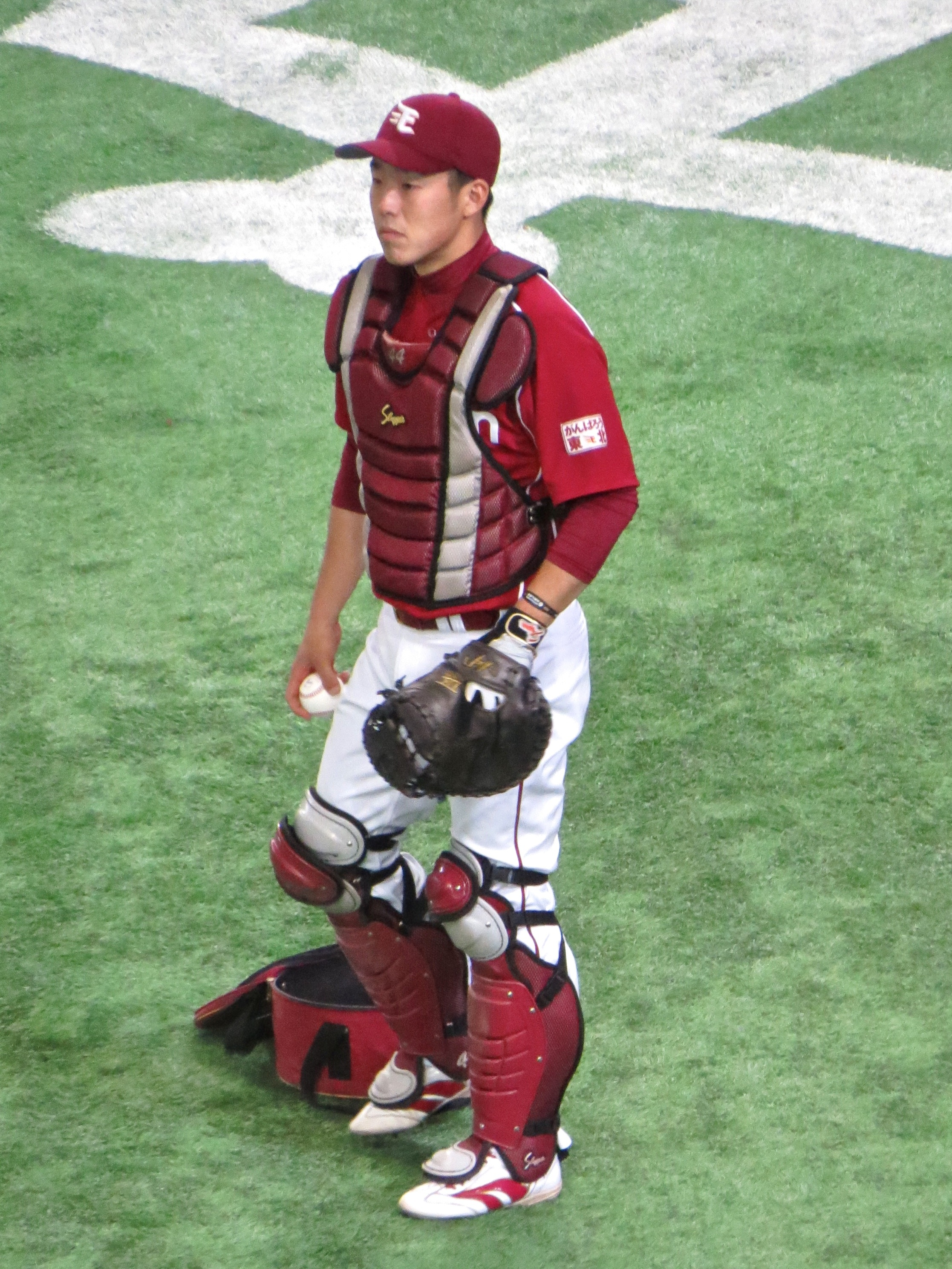 Yuichi Adachi, catcher of the Tohoku Rakuten Golden Eagles, at Tokyo Dome